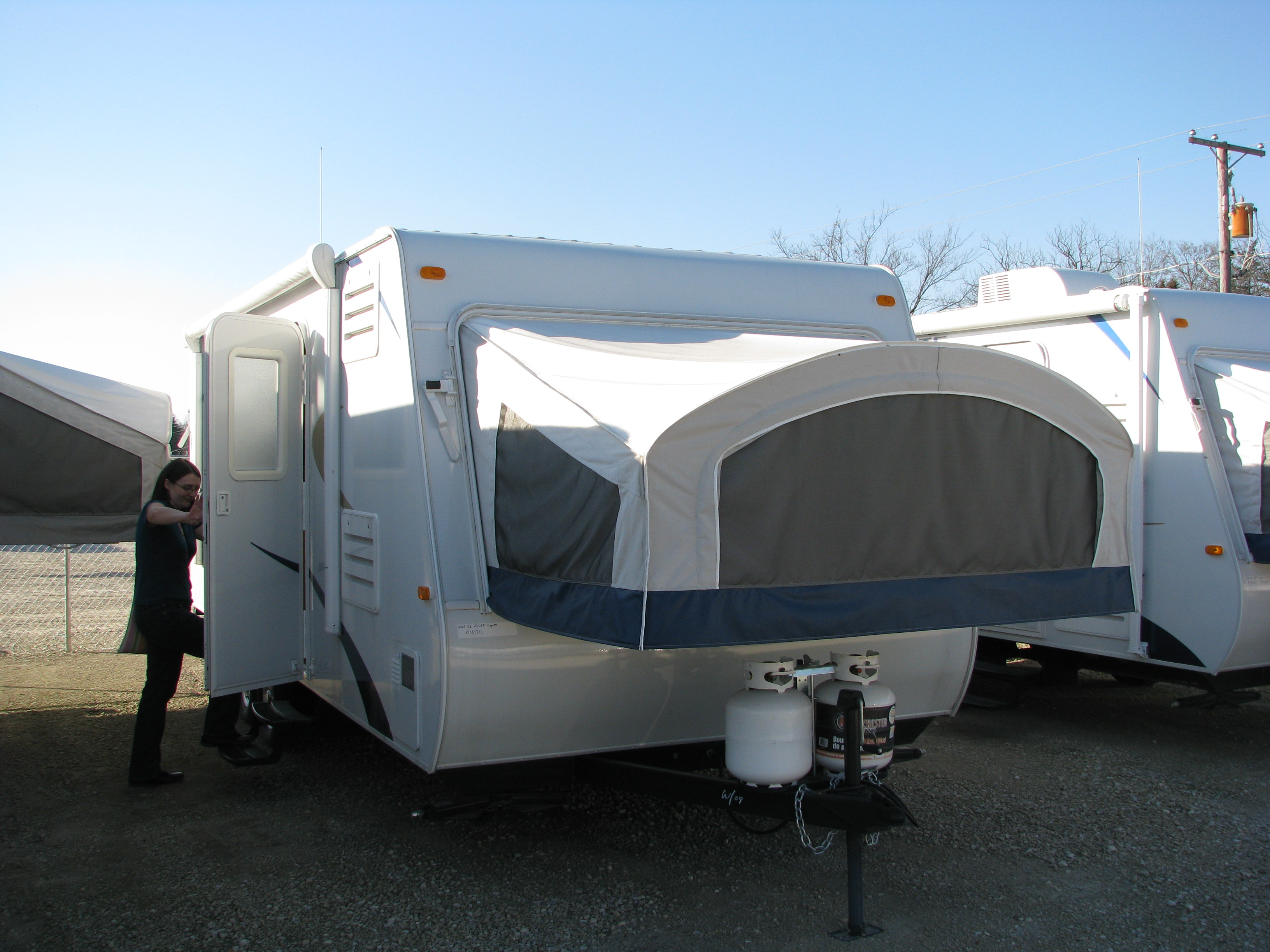 A hybrid travel trailer made by KZ Recreational Vehicles